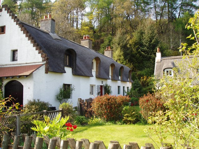 Thatched cottages, Fortingall